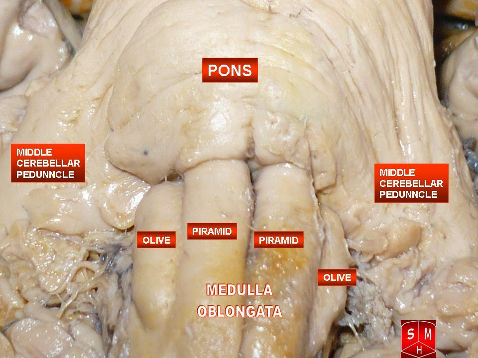 Medulla oblongata, pons and middle cerebellar peduncle